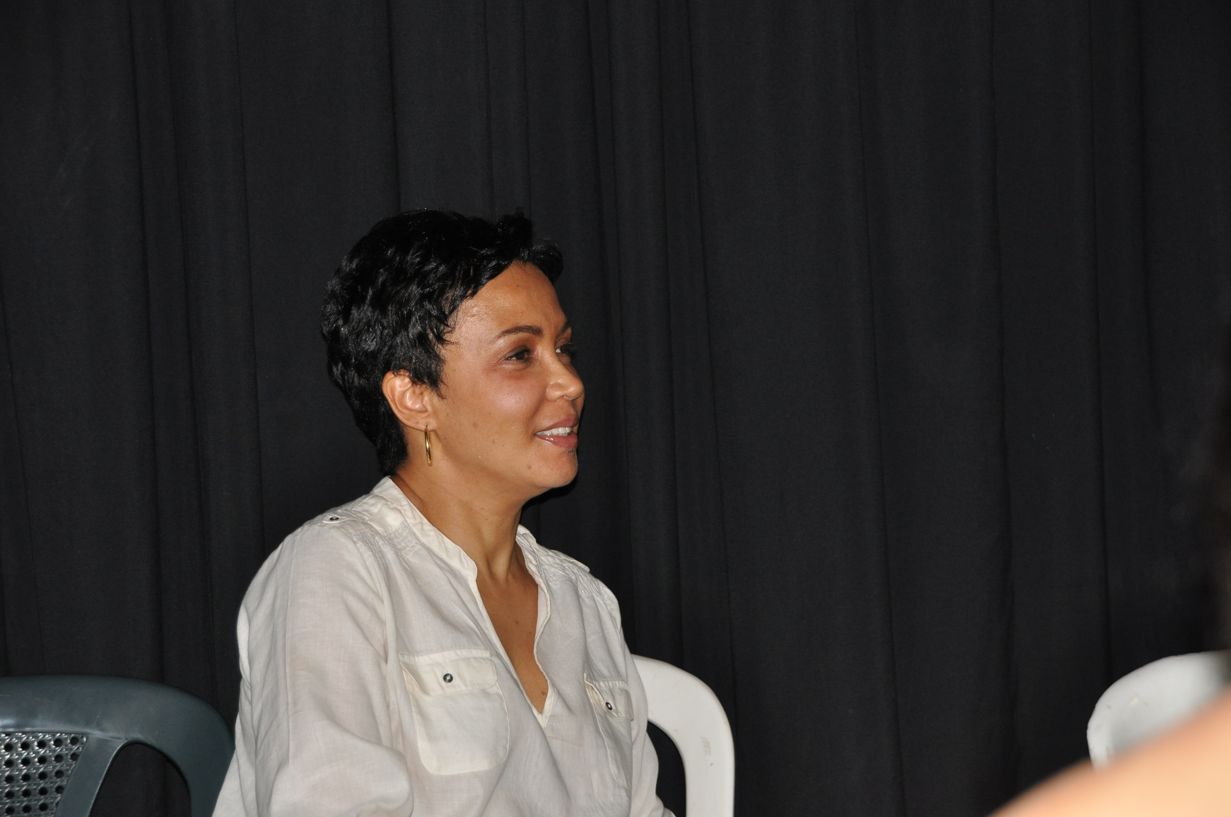 2011 Ars&Urbis Meeting, Douala, 24-26/05/2011. A meeting organized by doual'art in Douala, to plan the SUD Salon Urbain de Douala 2013. Photo courtesy doual'art.